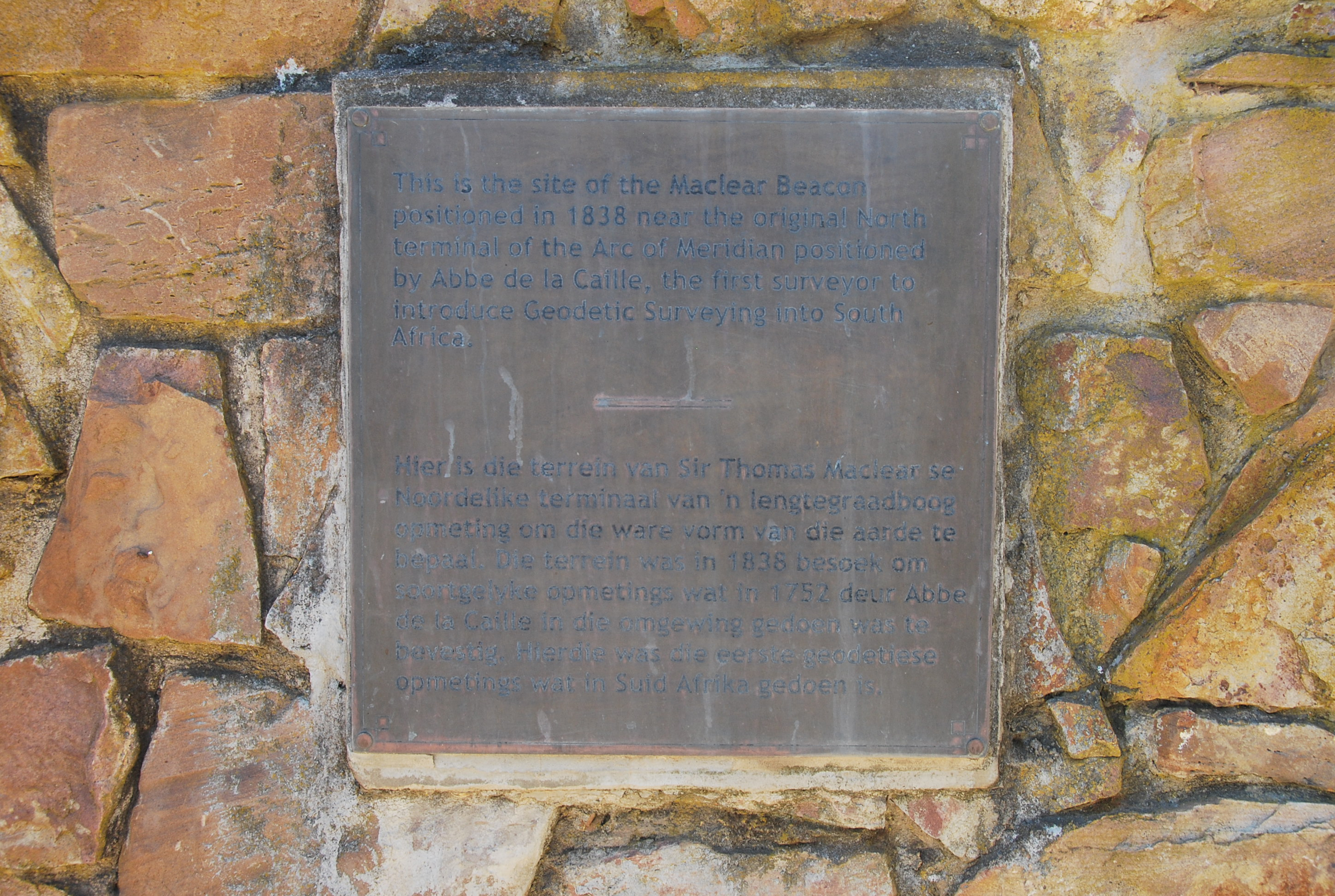 The English portion of the inscription reads: "This is the site of the Maclear Beacon positioned in 1838 near the original North Terminal of the Arc of Meridian positioned by Abbe de la Caille, the first surveyor to introduce Geodetic Surveying into South Africa."